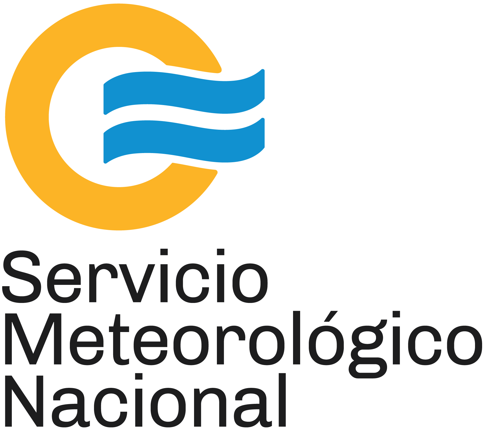 Logo SMN of Argentina